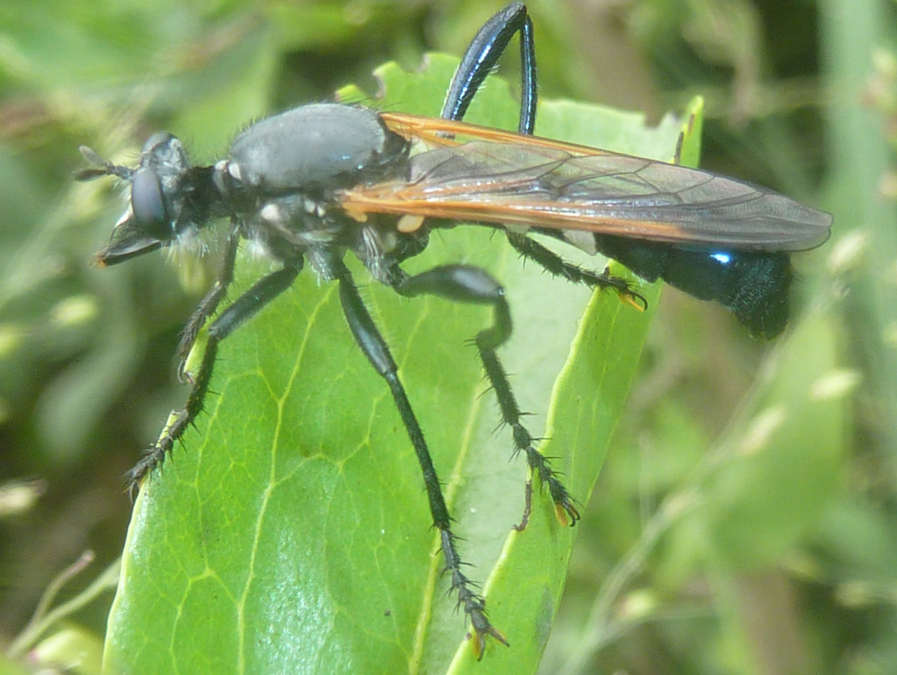 Wasp robber fly in Buffelsdrift conservancy near Pretoria, South Africa